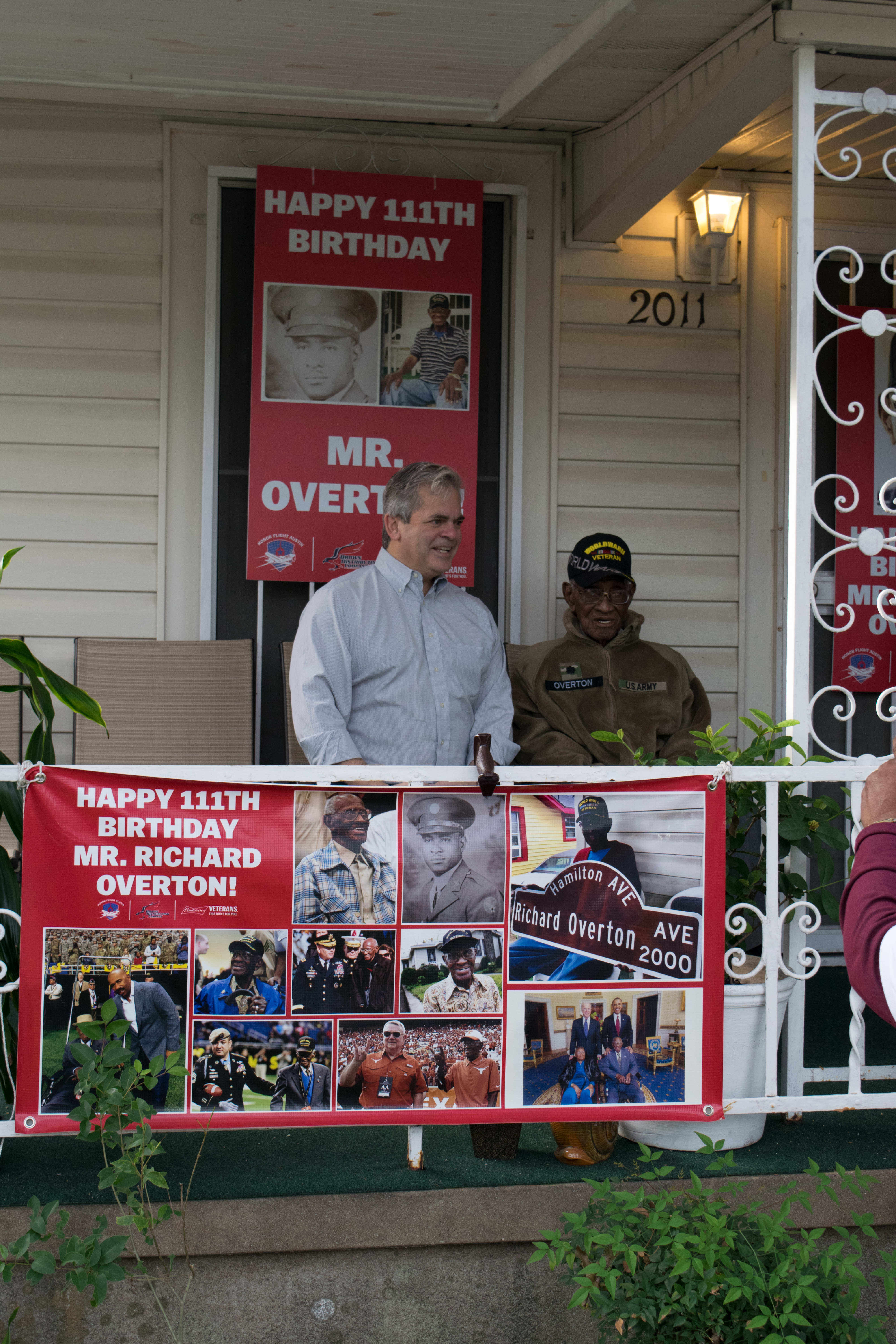 Richard Overton with Steve Adler before the Veterans Day Parade.